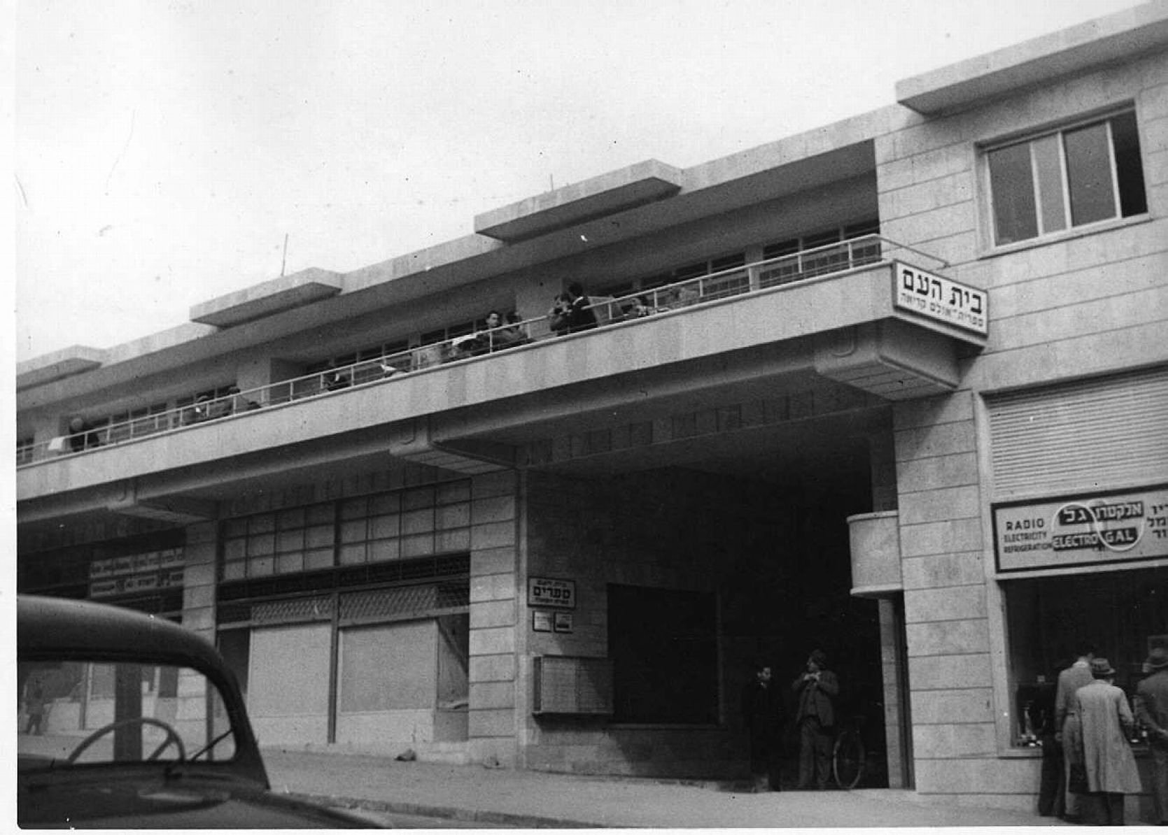 Beit Ha'Am on Jaffa Road (Derech Yafo), Jerusalem.